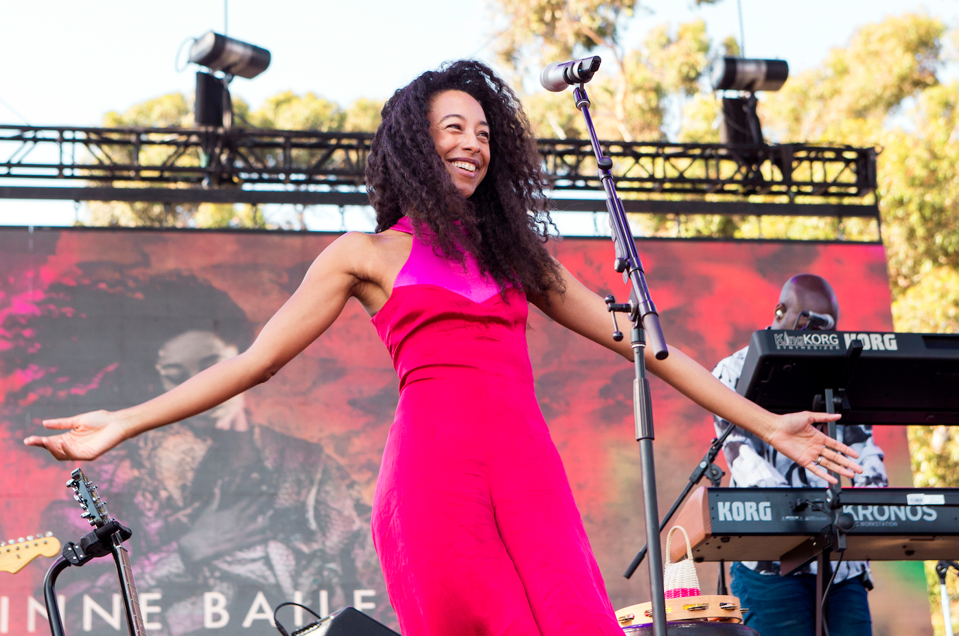 Corinne Bailey Rae at Ohana Festival 2016